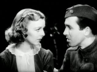 Cropped screenshot of Margaret Sullavan and James Stewart from the trailer for the film The Shopworn Angel